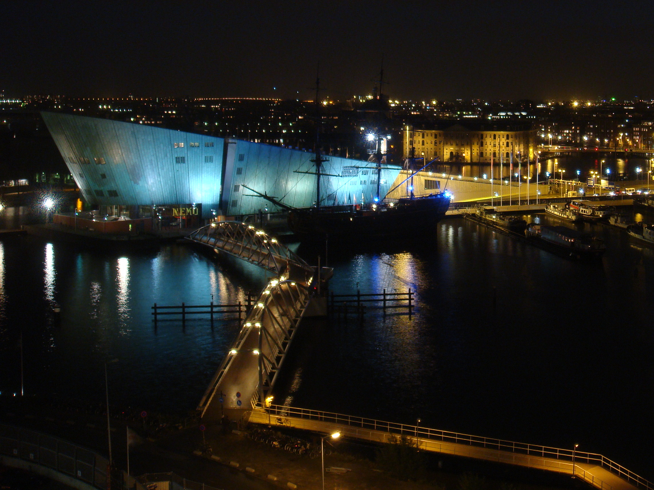 Taken from the Central Library's roof terrace.